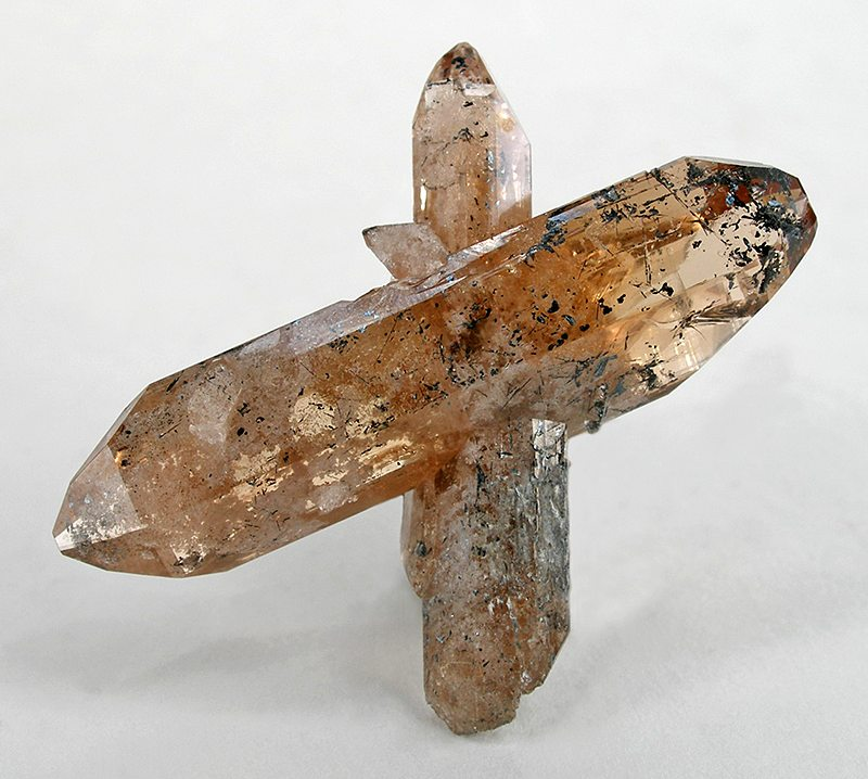 Hematite, Topaz Locality: Topaz Mountain, Thomas Range, Juab County, Utah, USA (Locality at ) Size: miniature, 4.6 x 4.4 x 1.6 cm Topaz with Hematite A complete floater with GEMMY , glassy lustre and superb form! All tips are pristine, and it has a sparkle in person not coneyed in the pictures. The minute inclusions of metallic hematite throw off specks of light, an dcontrast, that are interesting and accent the sherry topaz color. An older specimen from this classic locale!